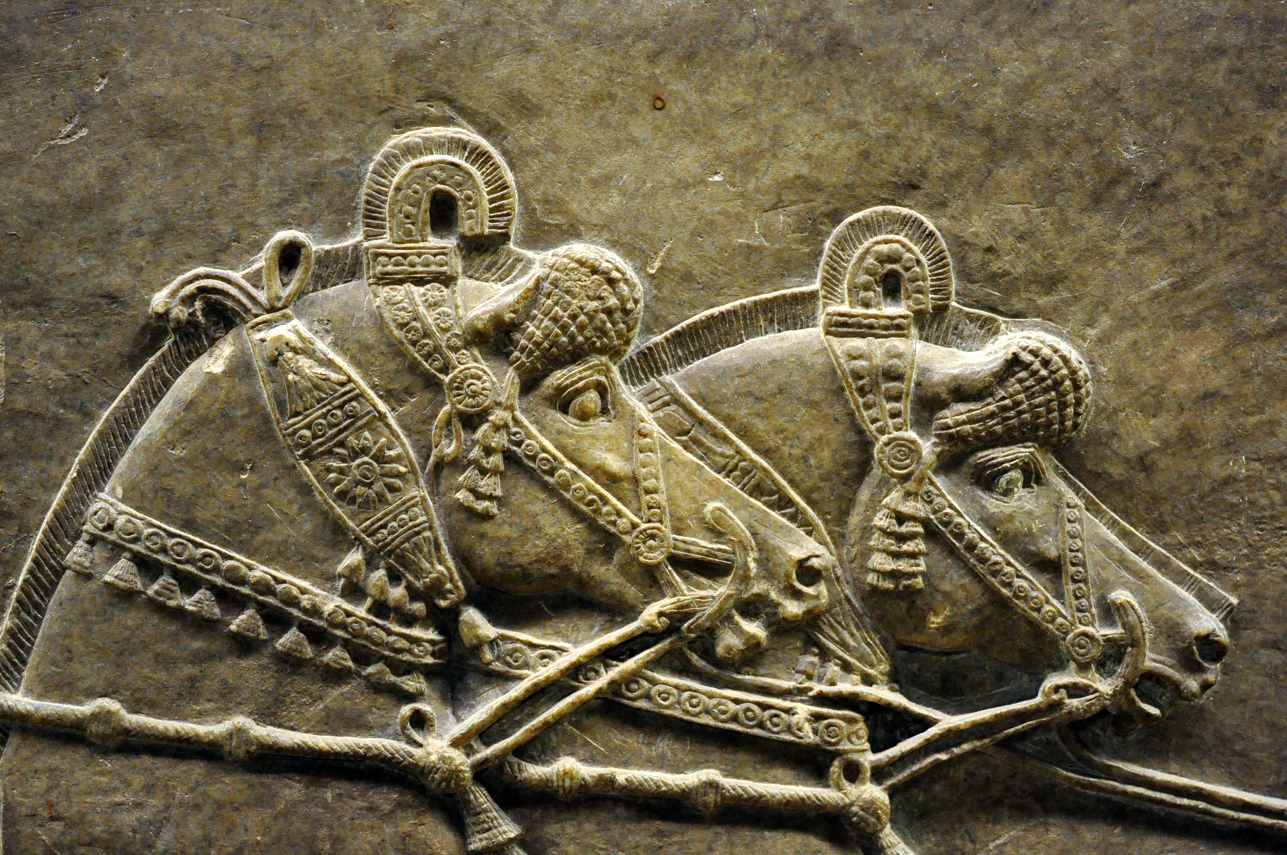 Detail of a lion-hunting scene of Ashurbanipal II, 7th century BCE, from the North Palace at Nineveh, Iraq. Alabaster-bas relief. The British Museum, London.